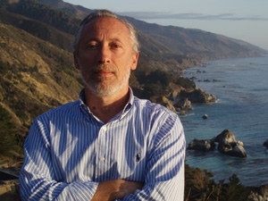 Antonio Costa Pinto